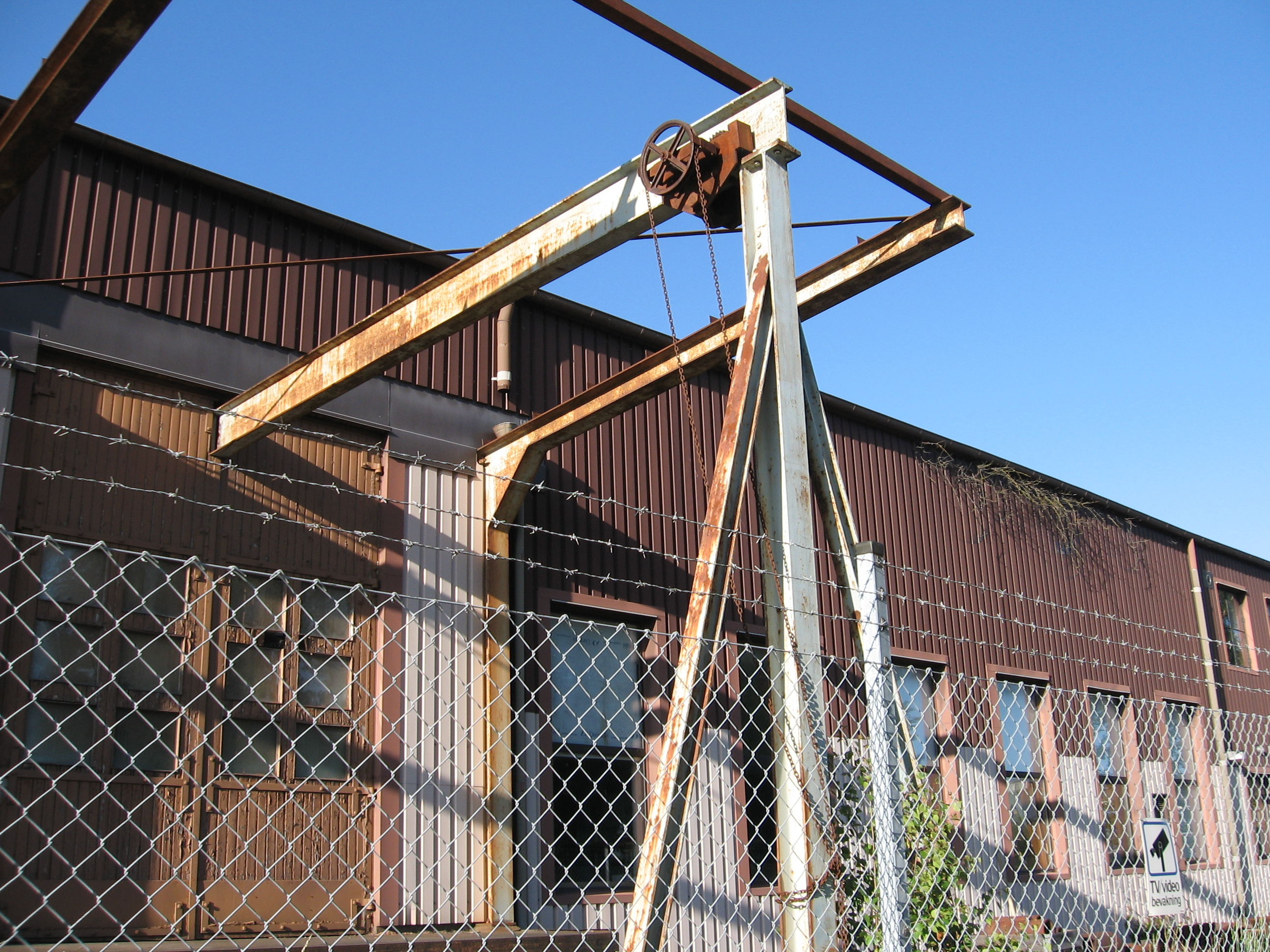 Hoist Cepa Lund